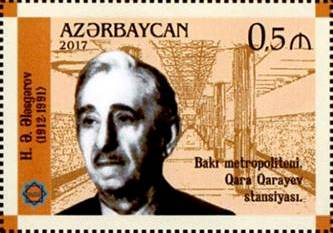 Union of Architects of Azerbaijan. N 1306 - 50 qapik. - There are pictured Hanifa Alasgarov and "Qara Qarayev" Metro Station in Baku on the stamps.